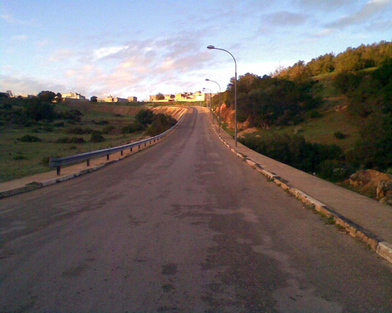 The Libyan village of Zawiyat al Urqub.